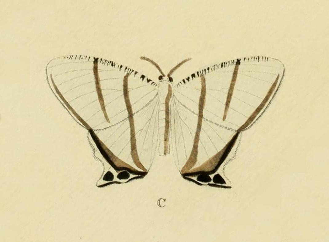 Cyphura geminia of Papua Indonesia